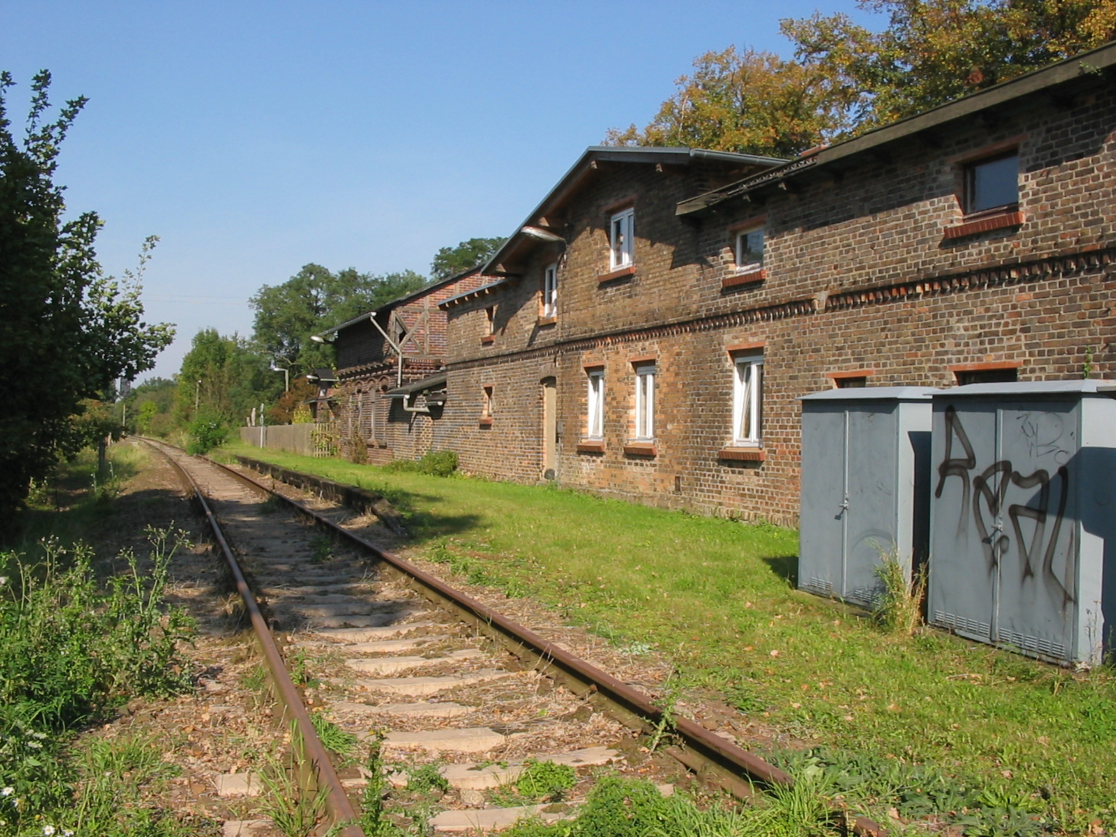 Former train station in Klein Grabow, Germany